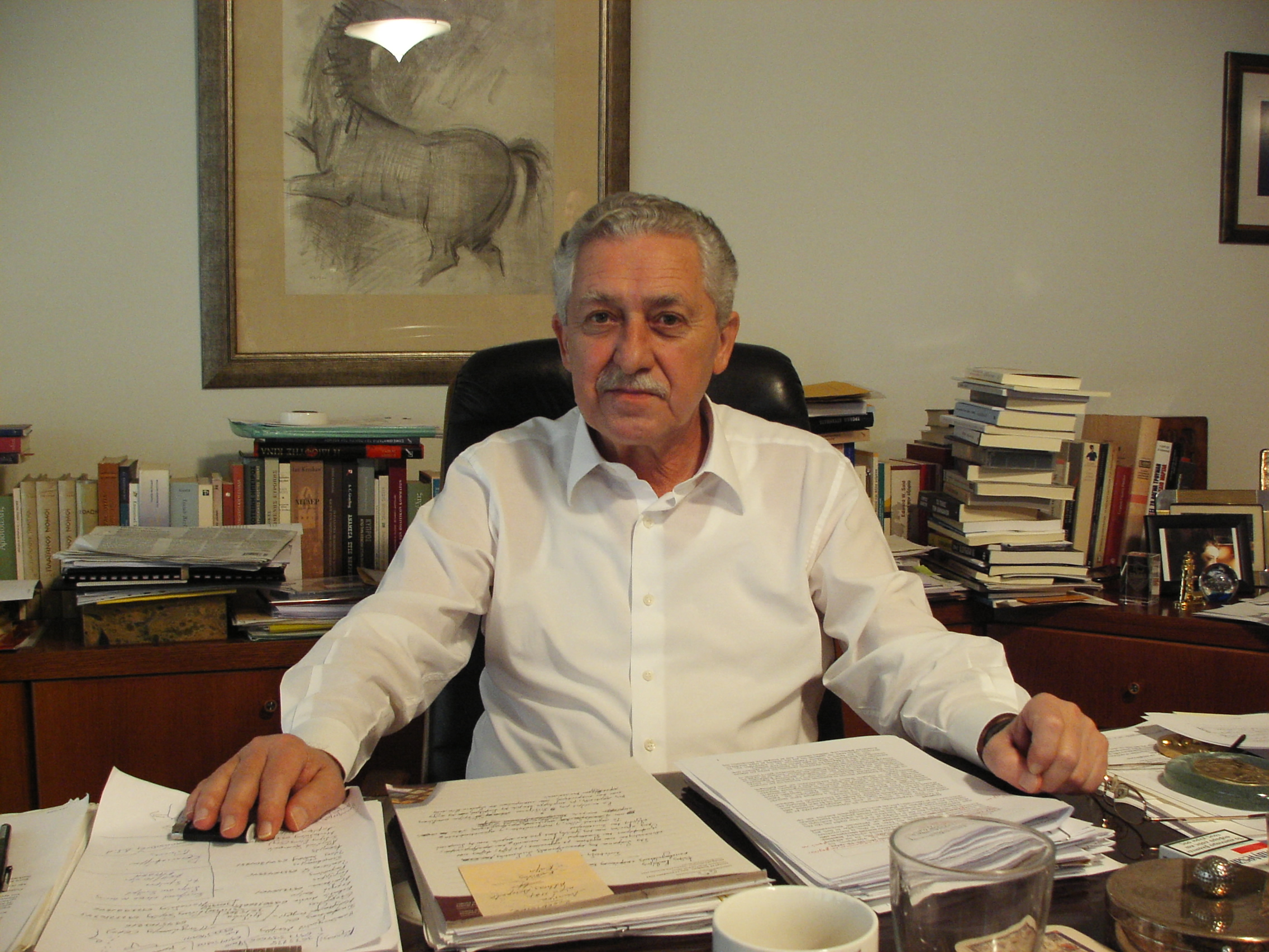 Fotis Kouvelis, Greek politician